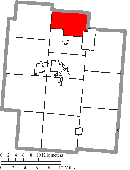 Map of the municipal and township boundaries of Jackson County, Ohio, United States, as of the 2000 census, with the location of Washington Township highlighted. Township borders are shown only in unincorporated areas in order to differentiate incorporated and unincorporated areas more clearly.